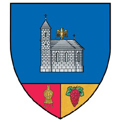 Coat of arms of Buzău County, Romania.